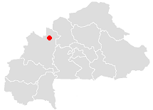 The map shows the location of the town of Tougan in Burkina Faso.